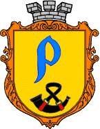 Coat of Arms Radviliv Rivne Oblast Ukraine